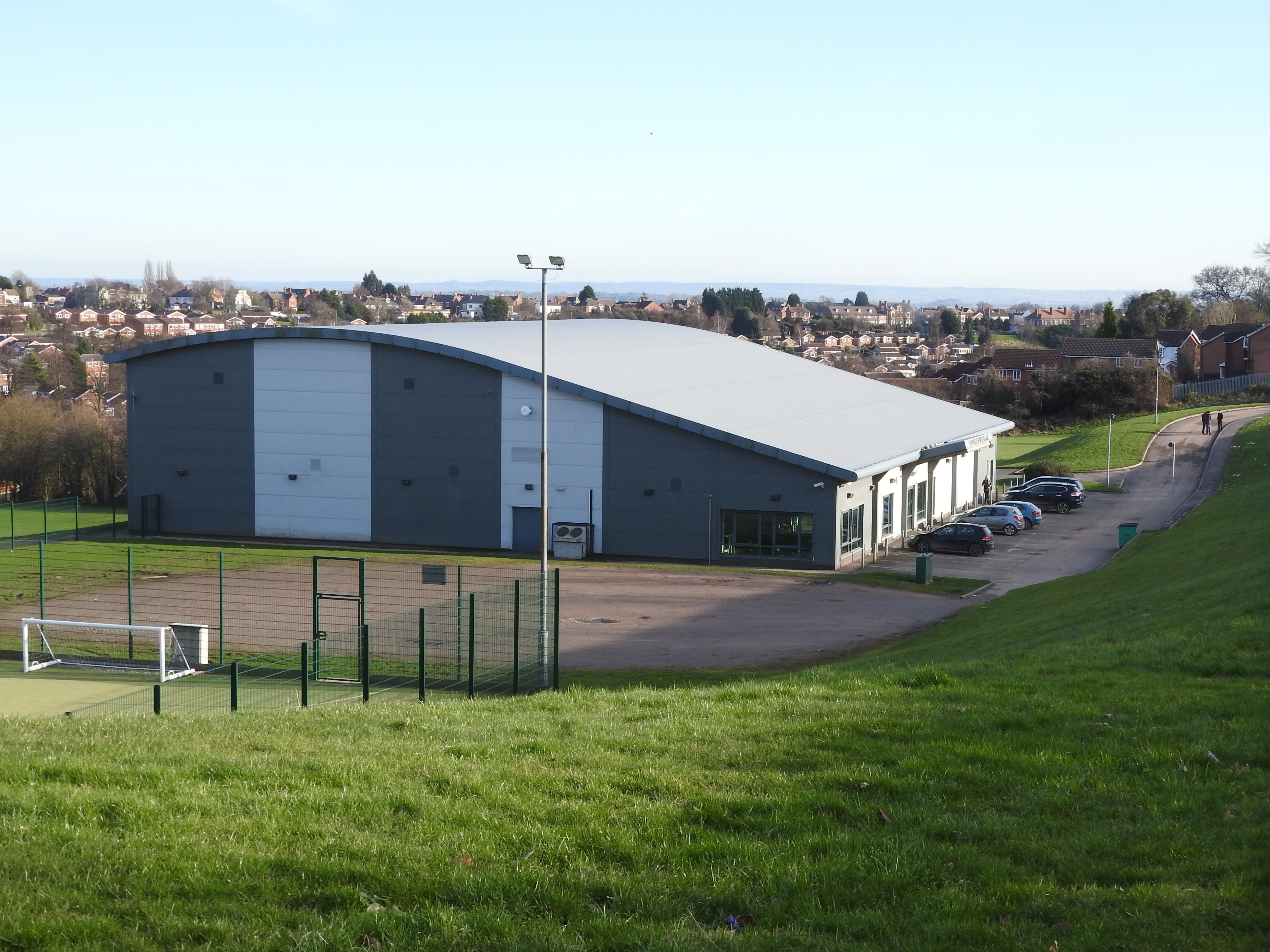 Nottingham Academy, the Ransom Road Site.